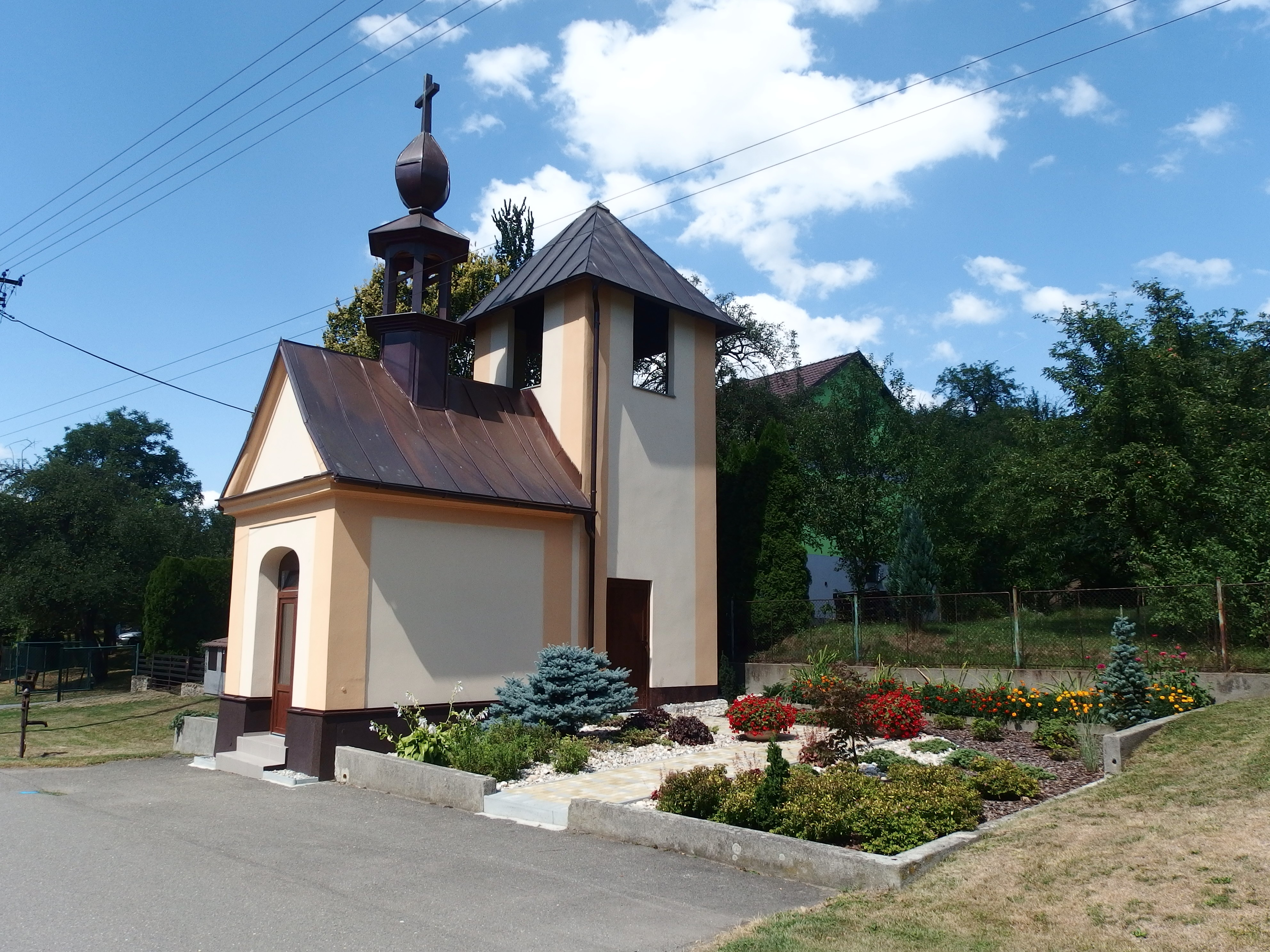 Starý Jičín, Nový Jičín District, Czech Republic, part Vlčnov.